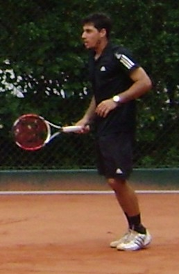 Fernando Romboli, tennis player from Brazil, at São Paulo Challenger